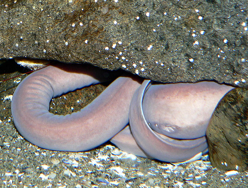 Photo of Eptatretus stoutii (Pacific hagfish) at the Vancouver Aquarium